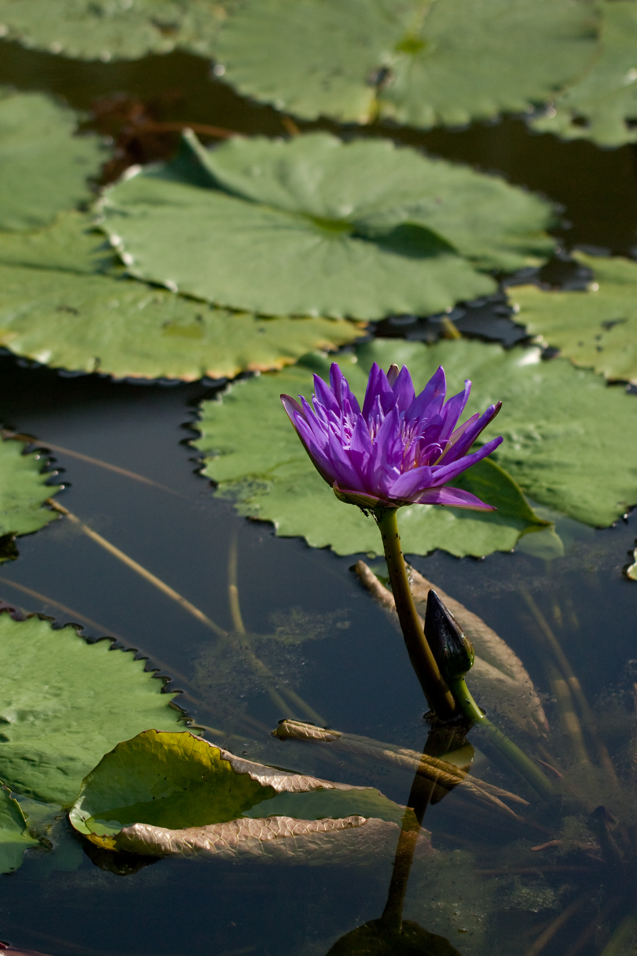 Water lily, "Mid Night"